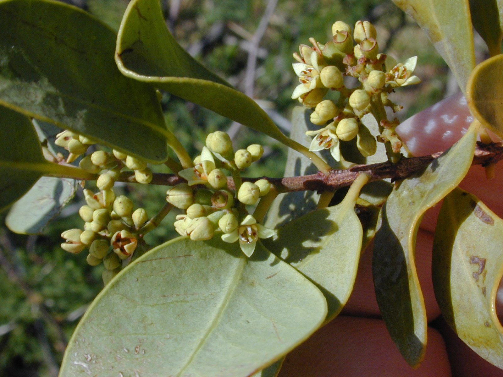 Santalum ellipticum (flowers). Location: Maui, Lahaina Pali Trail